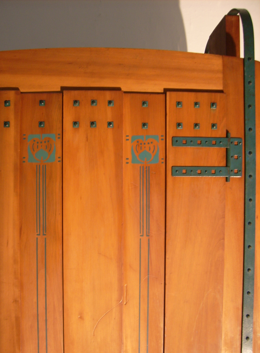 Furniture Silex made by Gustave Serrurier. Detail of hinge.